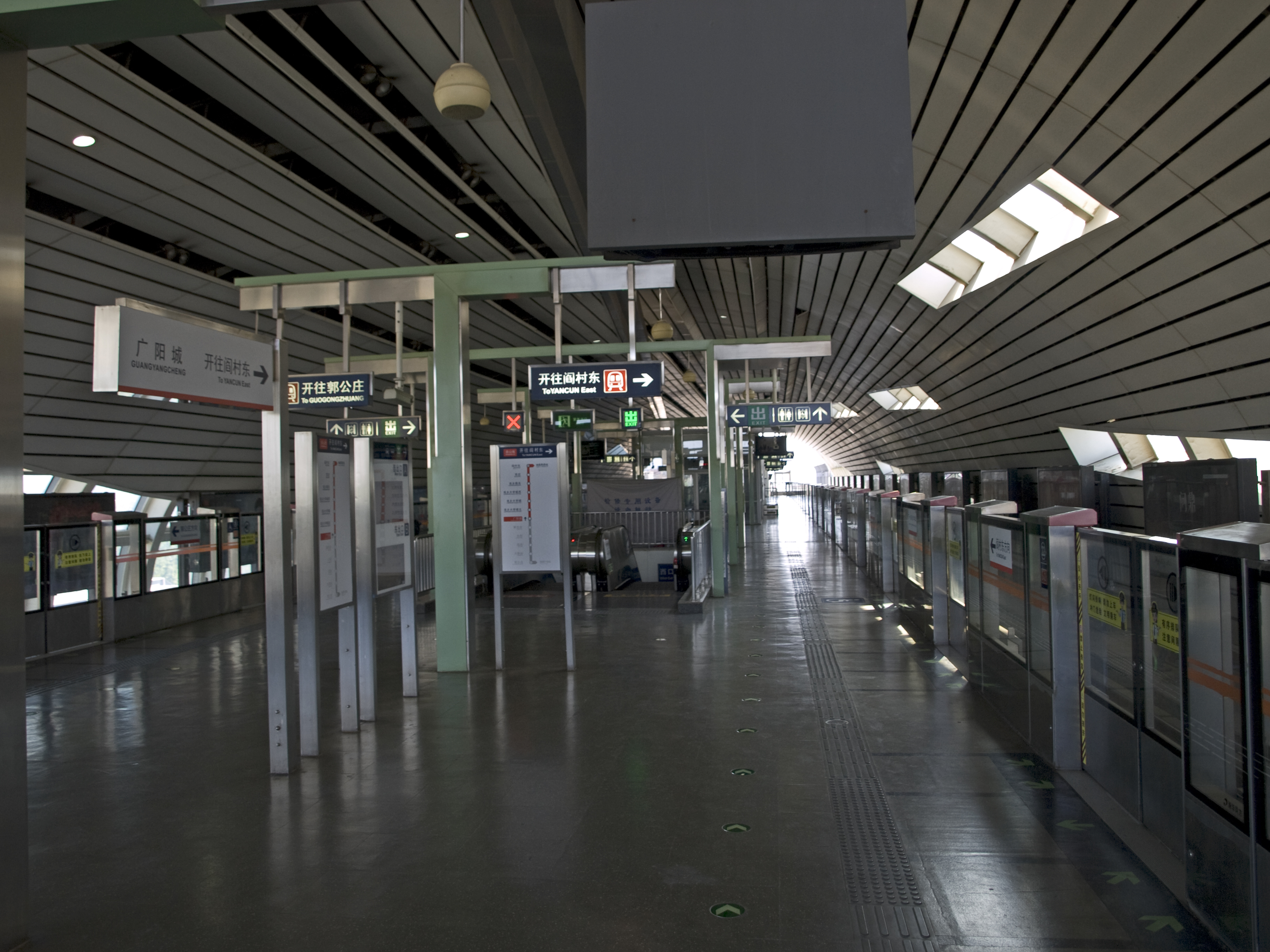 Platforms of Guangyangcheng Station, direction west